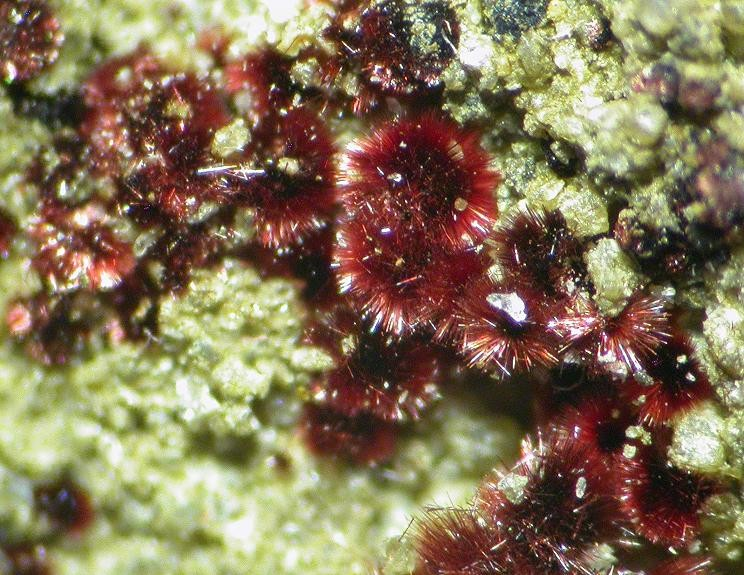 Hewettite Locality: Vanadium Queen Mine, La Sal Creek Canyon, Paradox Valley District, Paradox Valley, San Juan Co., Utah, USA Field of view 2 mm. Specimen and photo Leon Hupperichs. My thanks to Joe Marty for this nice exchange specimen.